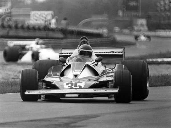 Carlos Reutemann in the 1976 Italian Grand Prix at the wheel of Ferrari No. 35